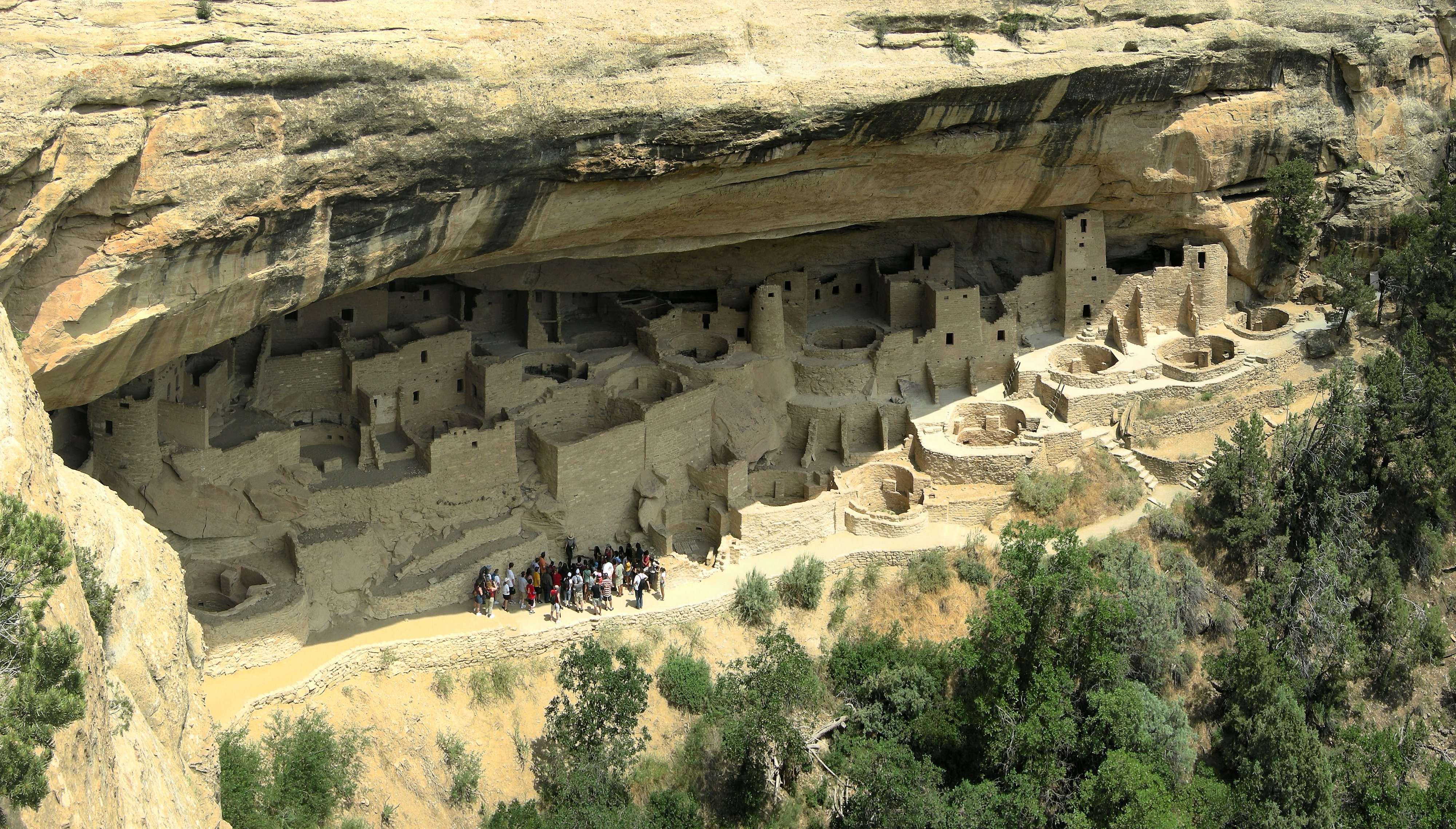 Cliff Palace in Mesa Verde National Park, Colorado, USA: it is the largest of about 4000 preserved Cliff Dwellings (circa 800 years old) built by ancient Pueblo people (Anasazi)